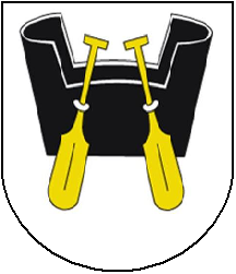 Coat of arms of the municipality of Näfels, Canton of Glarus, SwitzerlandEsperanto: Blazono de la komunumo Näfels, Kantono Glaruso, Svislando